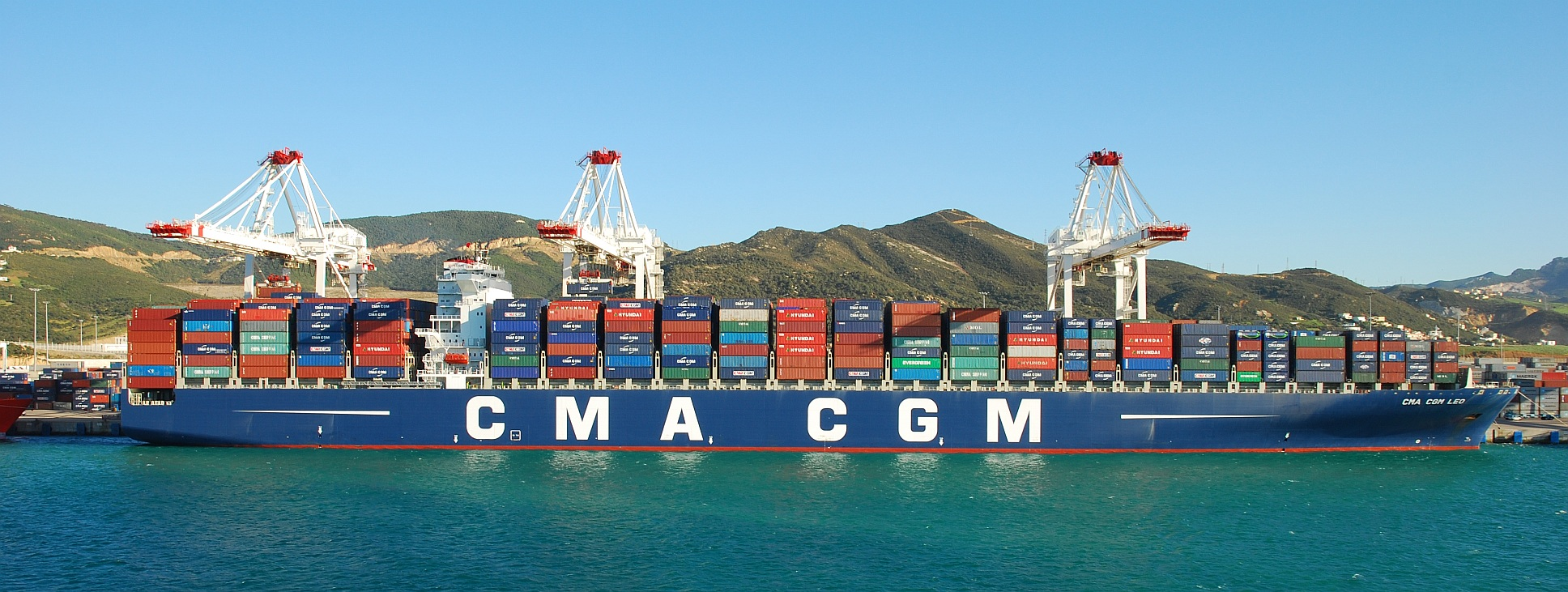 Container ship CMA CGM Leo in Tanger-Med port, Morocco